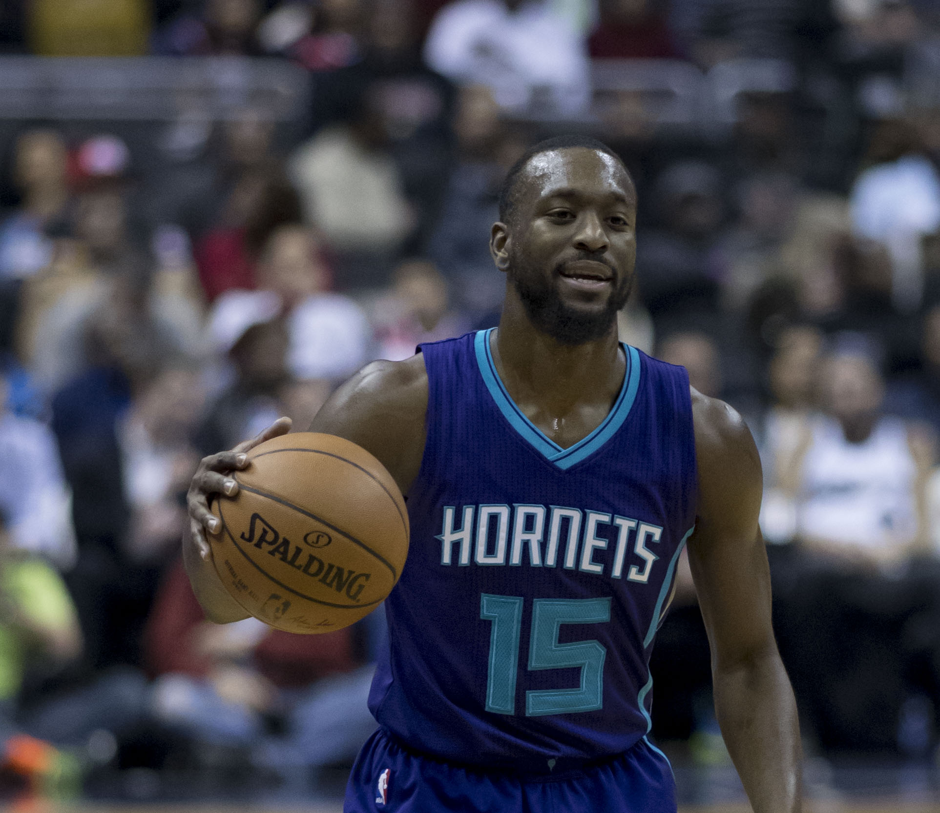 Hornets at Wizards 12/14/16